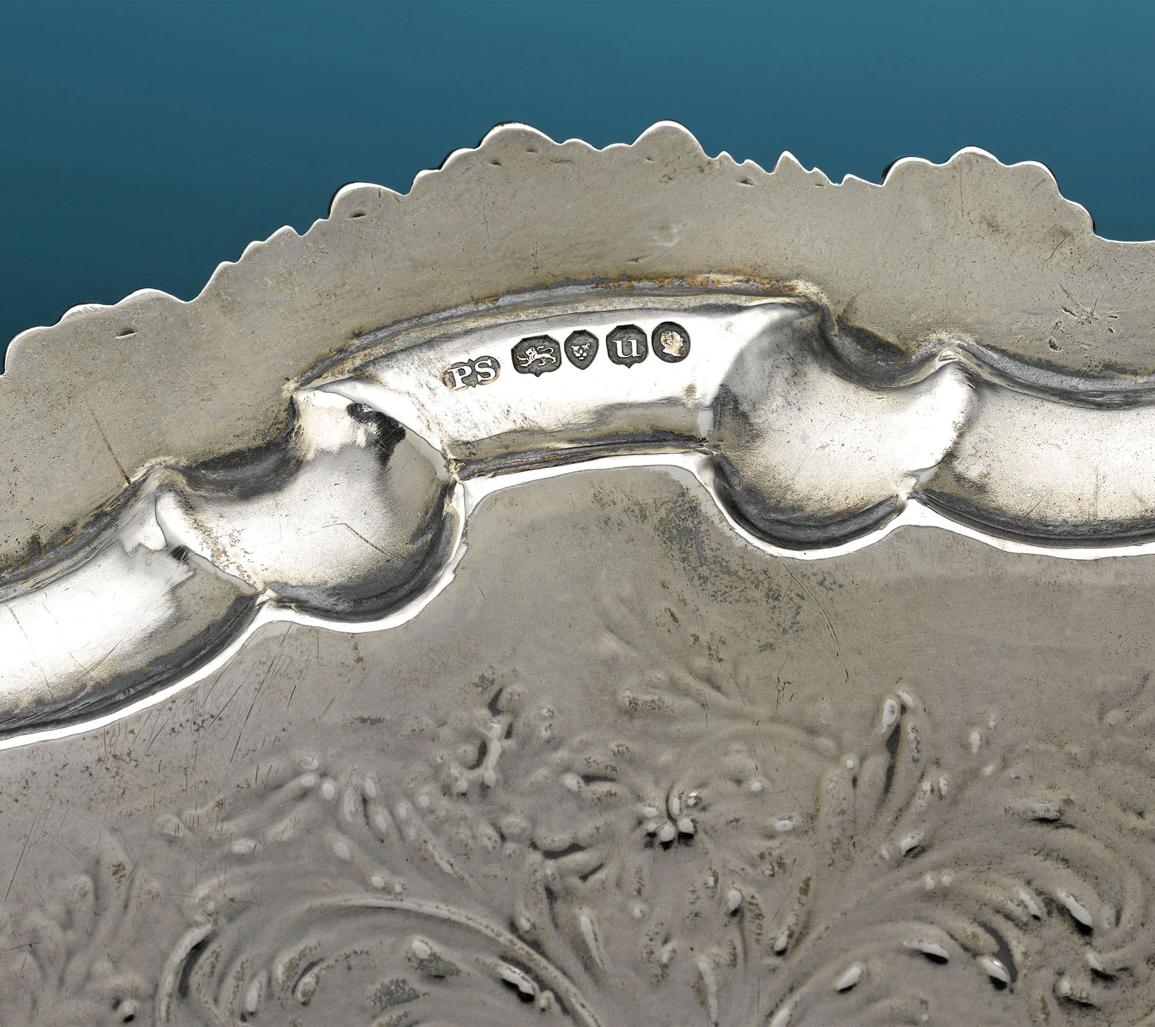 Paul Storr William IV silver tray hallmarked London, 1835